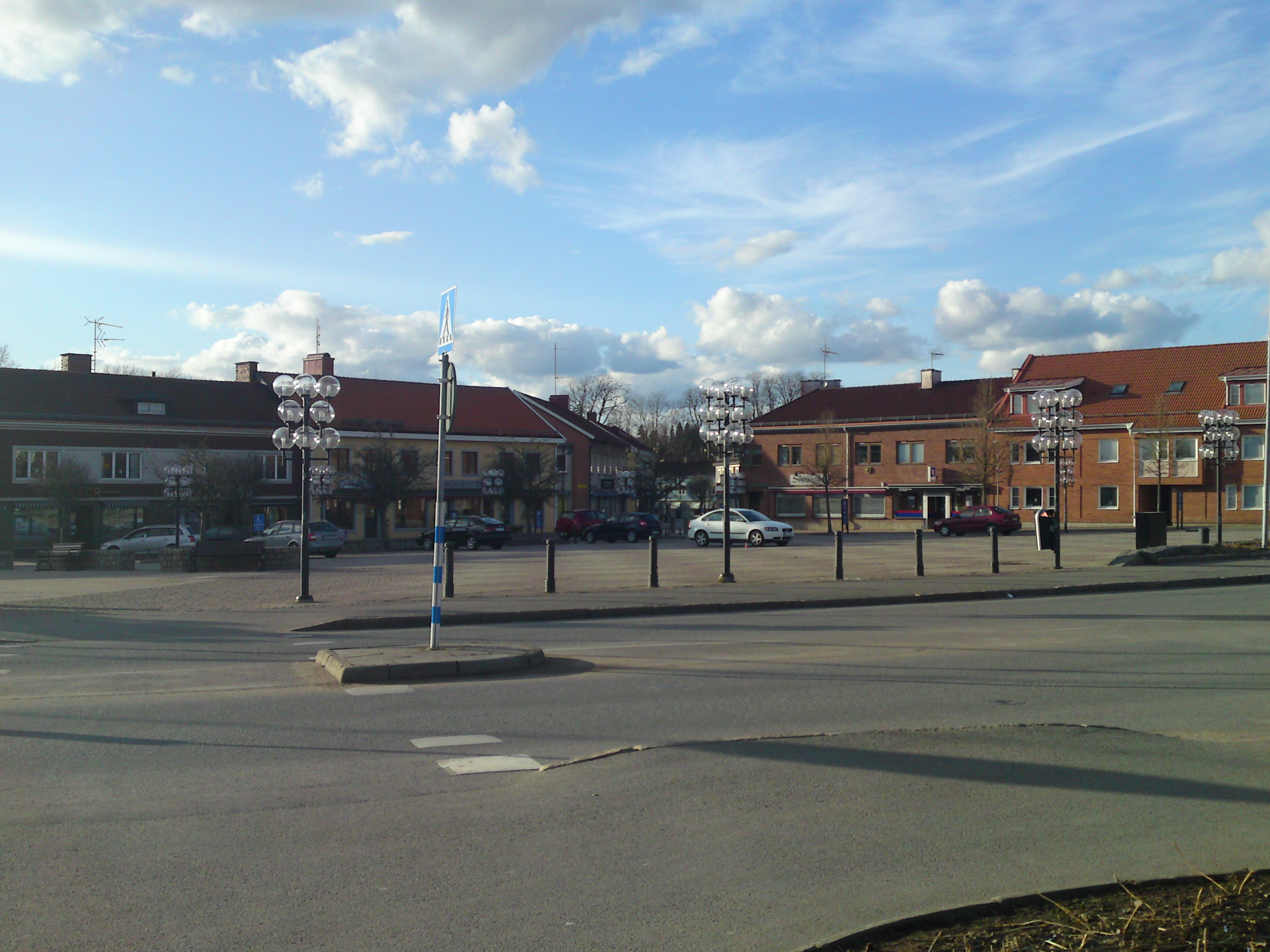 Sävsjö square. In the end of the sqaure "Köpmangatan" is seen that together with "Kopparslagaregatan" holds most of Sävsjö's smaller shops.